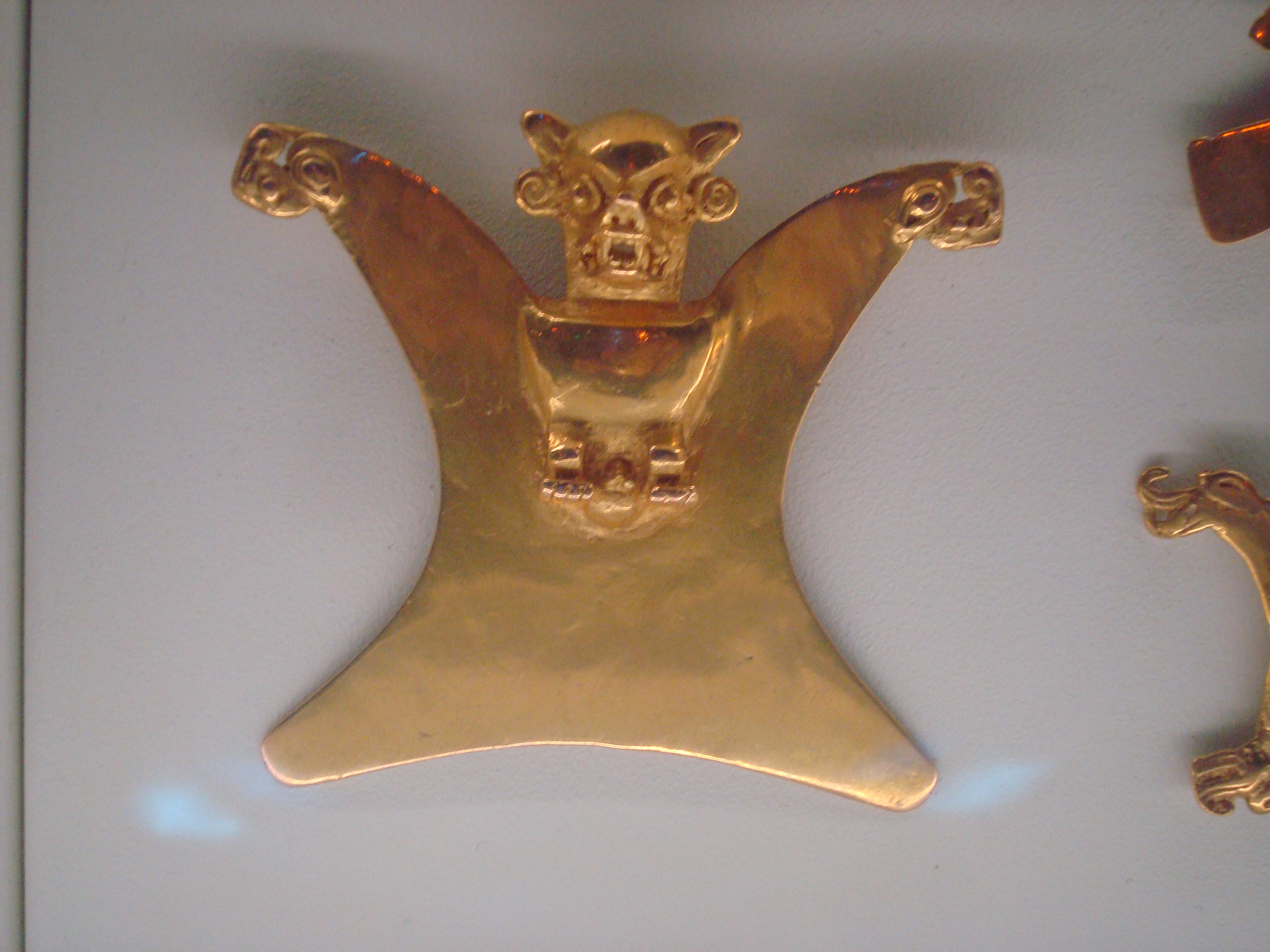 Bat-shaped pendant with representation of male sex organs. Southern Pacific of Costa Rica. 700-1550 AD. 7 x 15.5 cm. Museum of Pre-Columbian Gold. San Jose. Costa Rica.